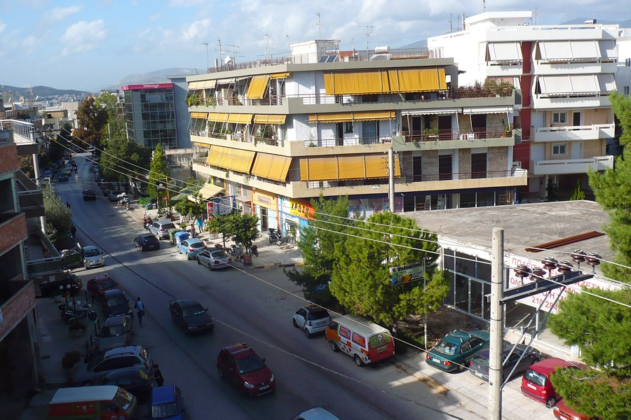 Skyline of Nea Ionia, Attica.